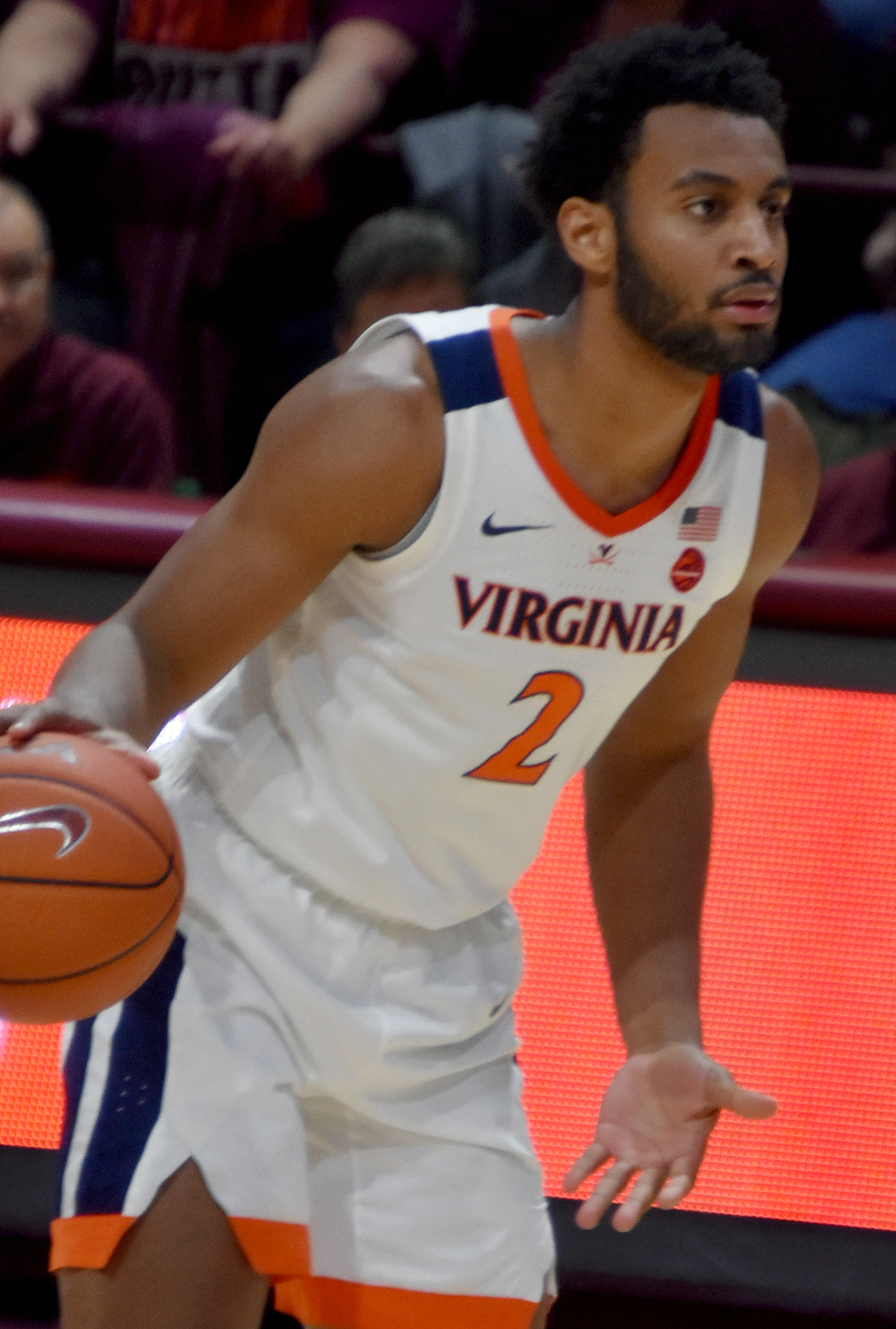 Braxton Key handles the ball for the Cavaliers against the the Hokies at Cassell Coliseum